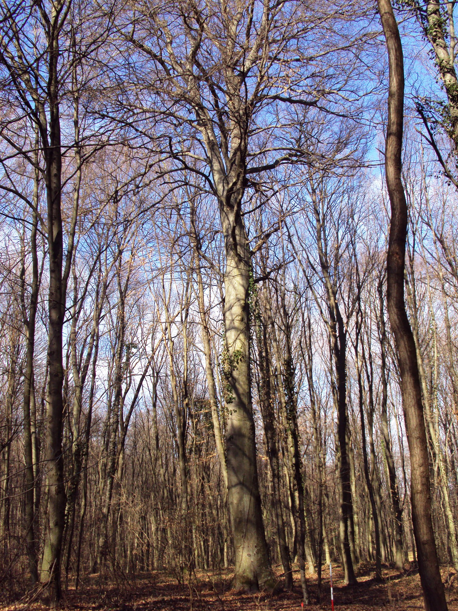 Fagus sylvatica, Sveti Petar Čvrstec, Croatia